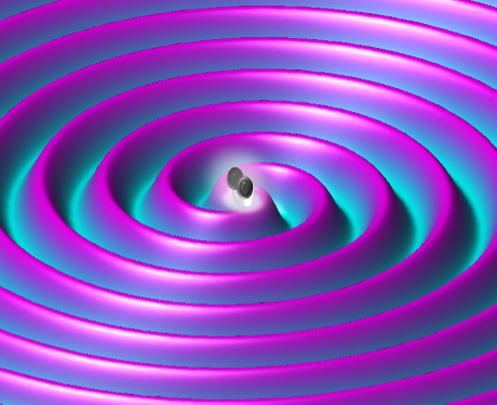 Gravitational Waves of a compact binary system